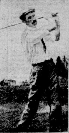 Circa 1905 photograph of Scottish golf professional Stewart Gardner. Author: unknown photographer URL: Library of Congress From New York Tribune article dated August 10, 1908.